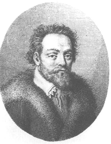 Cornelius Drebbel (1572-1633), Dutch inventor